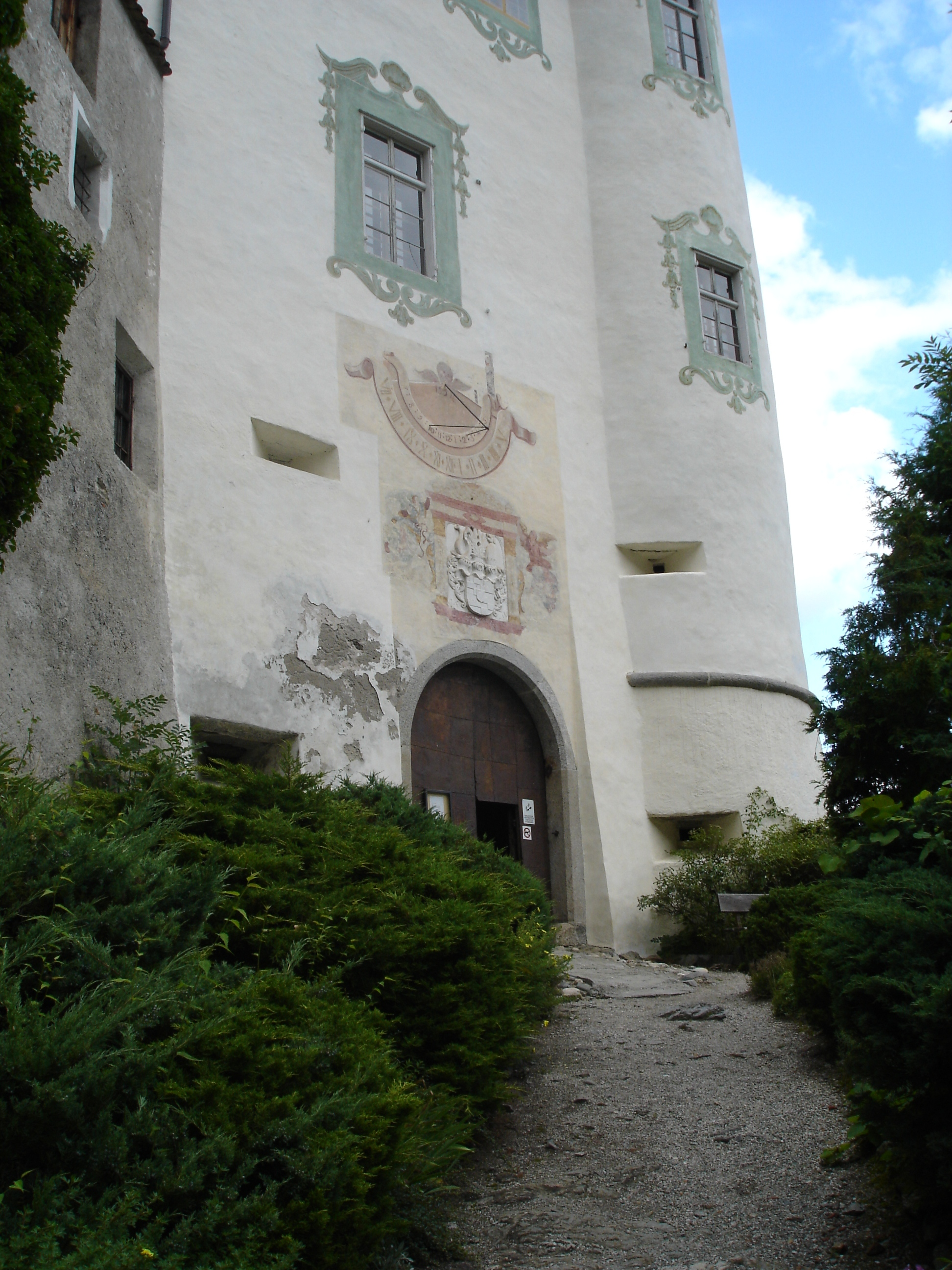 Ehrenburg Castle in Italy